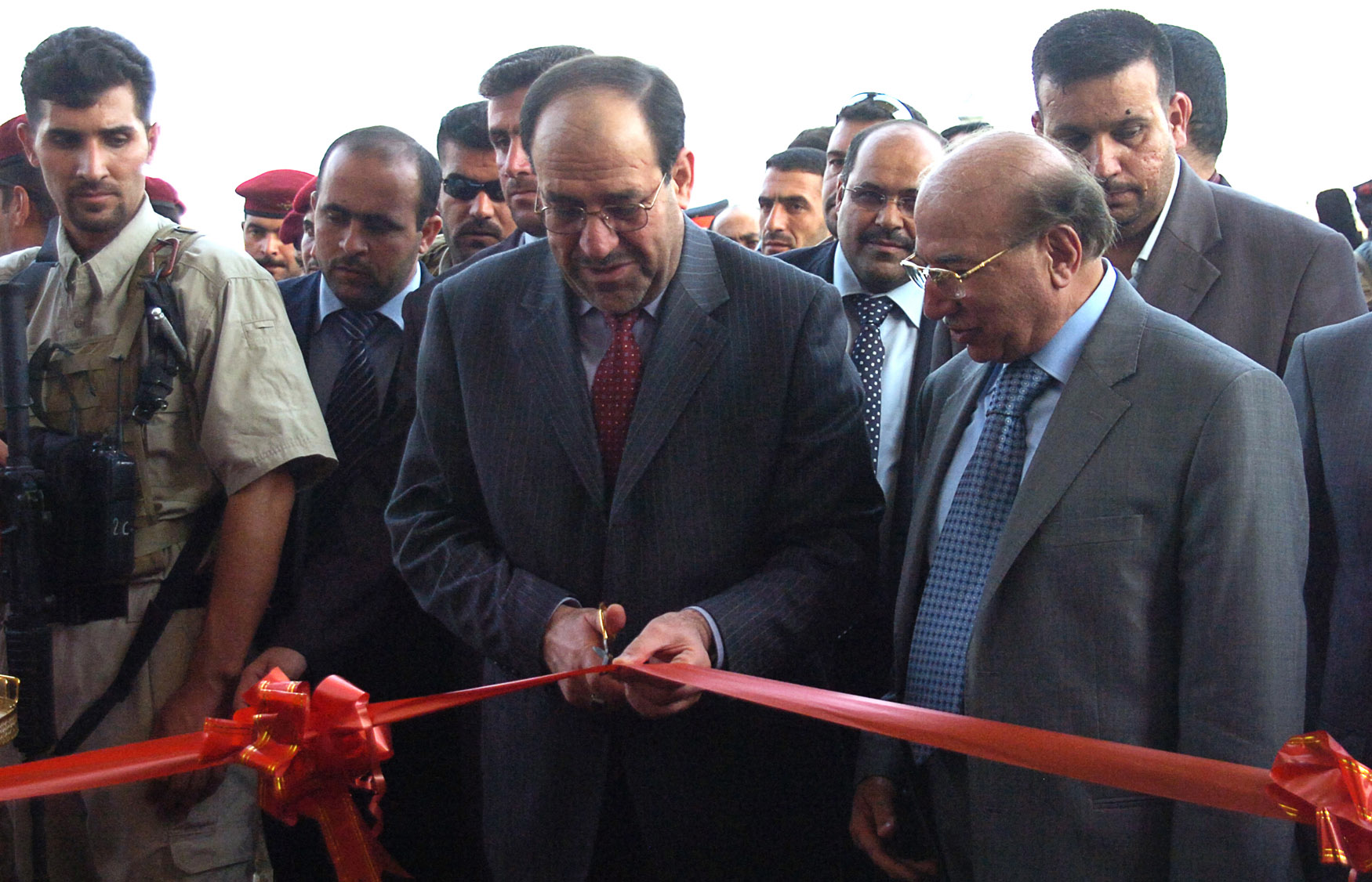 Iraq Prime Minister Nouri al-Maliki (center), cuts a ribbon, Sept. 10, 2008, at the opening of Justice Palace, a new courthouse and tool of justice in the Rusafa District of eastern Baghdad. On al-Maliki's left is Iraq's Chief Justice, Medhat al-Mahmoud.